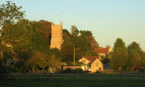 Sunset rays catch the Somerset tower of St. John the Baptist Church in the village of Pitney. Photo attribution: Celia Kozlowski